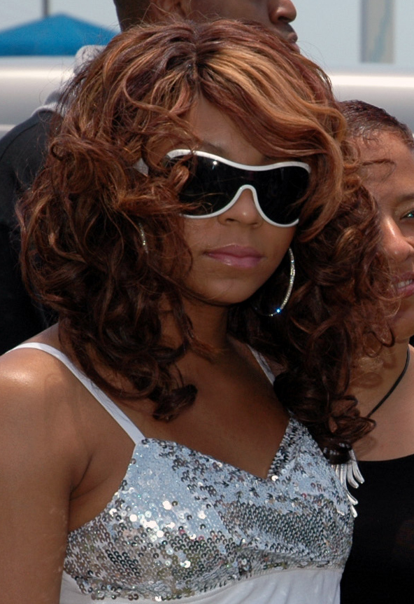 Rhythm and blues singer Ashanti conducts an interview on Camp Hansen, Japan, June 5, 2005.